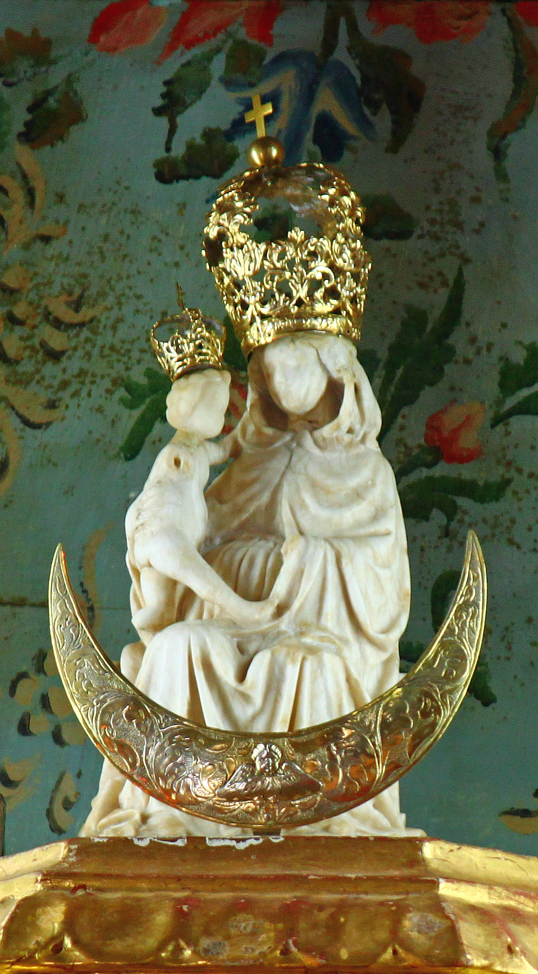 St. Mary with Jesus - Virgen de la Peña, Iglesia de Nuestra Señora de la Peña, Vega de Rio Palmas, Fuerteventura, Canary Islands, Spain. The alabaster figurine is 23 cm high and polished by the touches of pilgrims. It is adored as the patroness of the island.